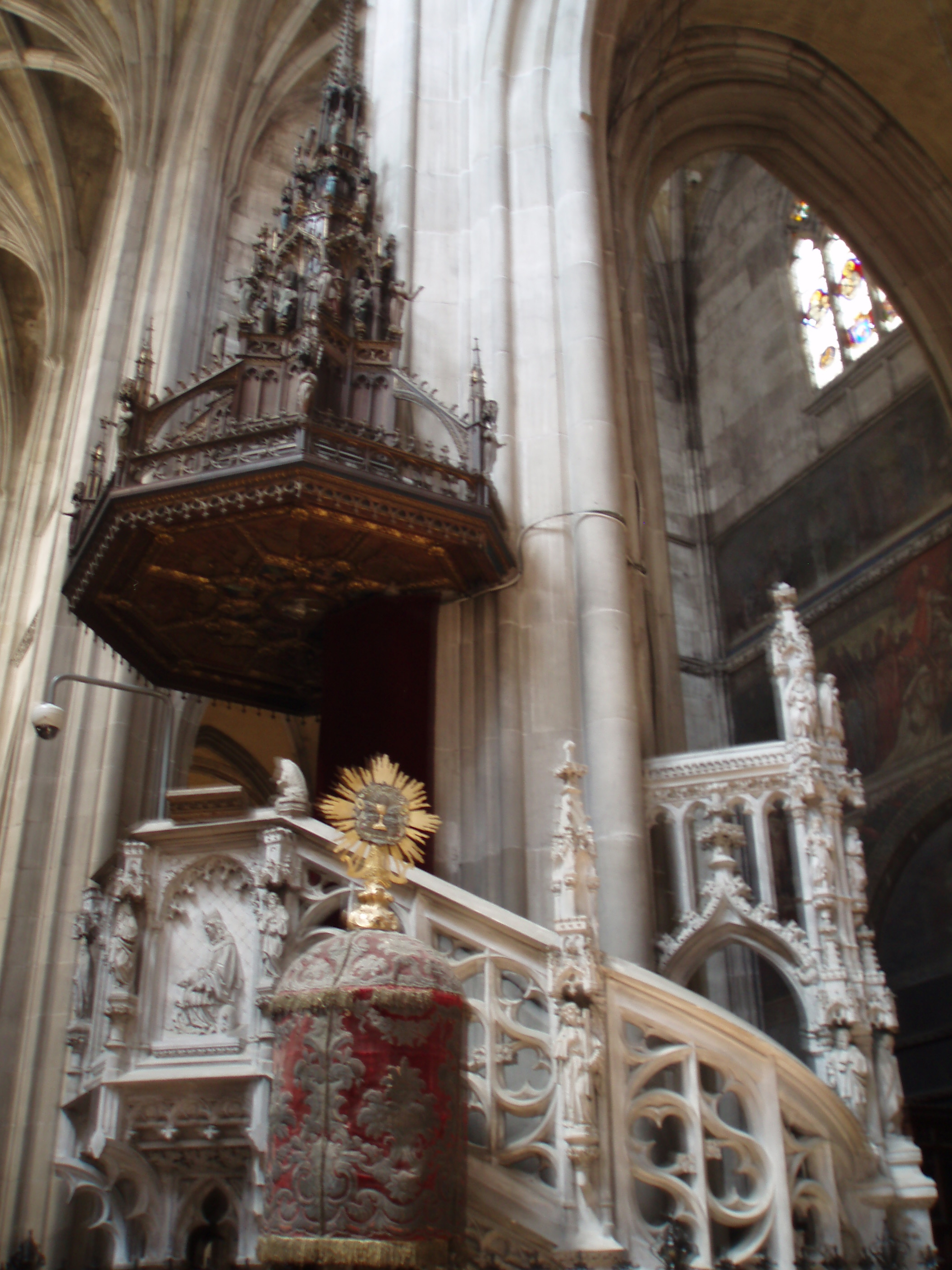 Pulpit of St.Elisabeth košice